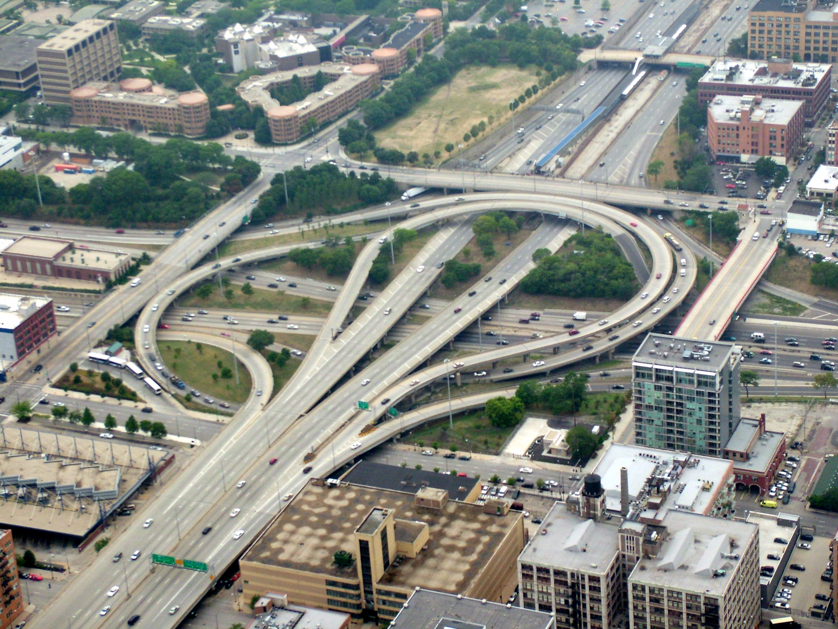 Overhead photo of the Circle Interchange in Chicago, IL